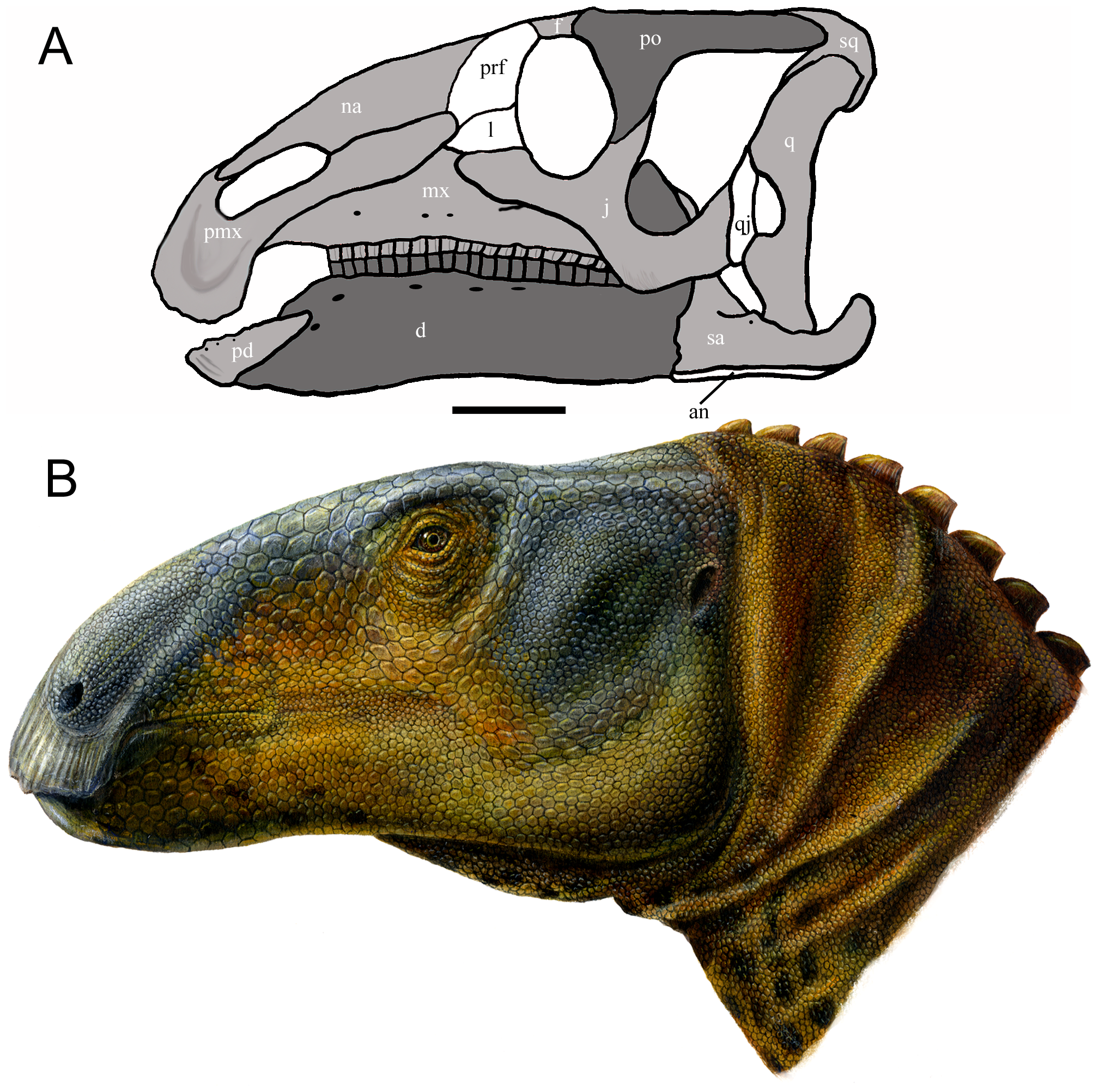 Reconstruction and restoration of the skull of Eolambia. (A) Skull reconstruction of Eolambia in left lateral view by the lead author. Bones in white are unknown, bones in dark grey are based primarily upon the adult holotype (CEUM 9758) or paratype (CEUM 5212), and bones in light grey are based primarily upon juvenile elements from the Eo2 and WS8 bonebeds. Sutures and points of contact between bones are marked in black. Scale bar equals 10 cm; scale is calibrated with the dentary of CEUM 9758. (B) Life restoration of the head of Eolambia by Lukas Panzarin. Abbreviations: an, angular; d, dentary; f, frontal; j, jugal; l, lacrimal; mx, maxilla; na, nasal; pd, predentary; pmx, premaxilla; po, postorbital; prf, prefrontal; q, quadrate; qj, quadratojugal; sa, surangular; sq, squamosal.